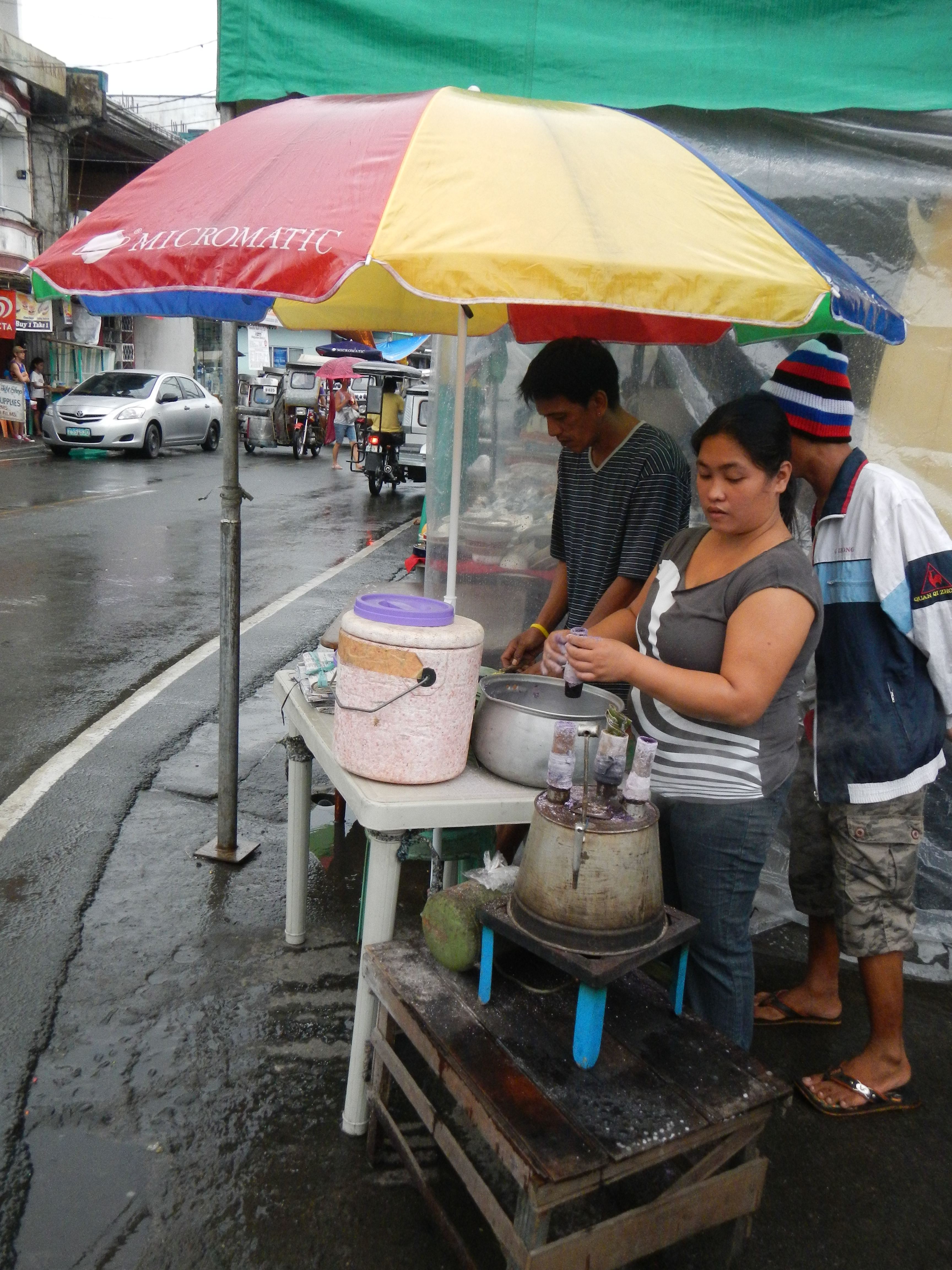 A woman selling puto bumbong, a type of rice cake, at the Nagcarlan Public Market in Laguna province, Philippines.)